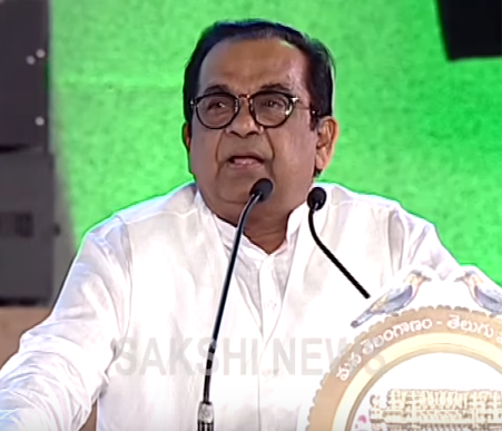 Brahmanandam addressing about Telugu in WTC 2017